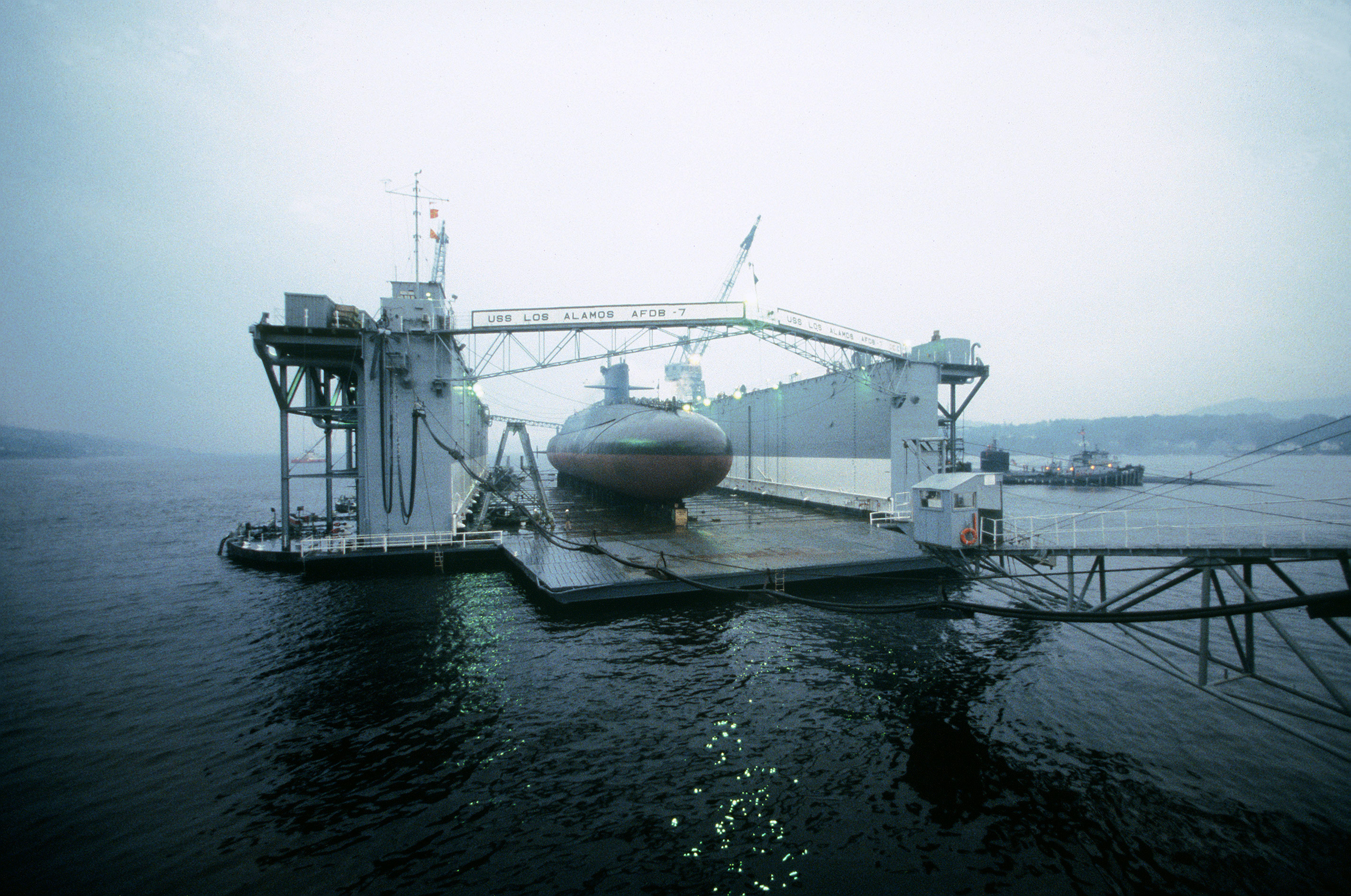 A submarine rests inside the large auxiliary floating dry dock USS LOS ALAMOS (AFDB-7) shortly before being lowered into the water at Navy Fleet Ballistic Submarine Refit Site 1.